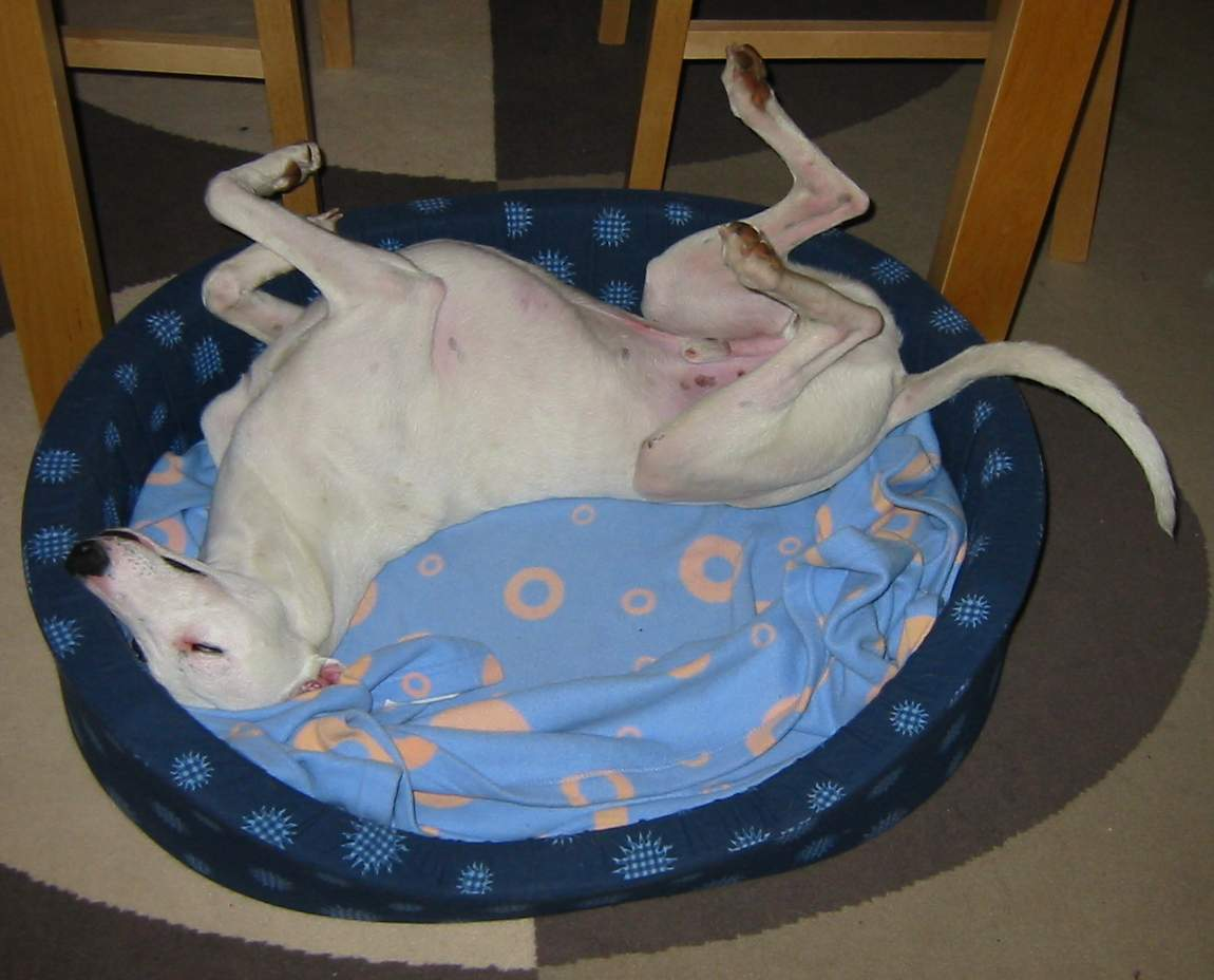 ÷(My) Whippet sleeping on the back. As far as I heard from others, this seems to be normal... ;-) I took the photo :-) Fantasy 11:27, 13 Aug 2004 (UTC) I have 3 whippets and they all sleep like this (unsigned 09:31, 15 June 2007 (UTC) comment added by 193.113.48.9)